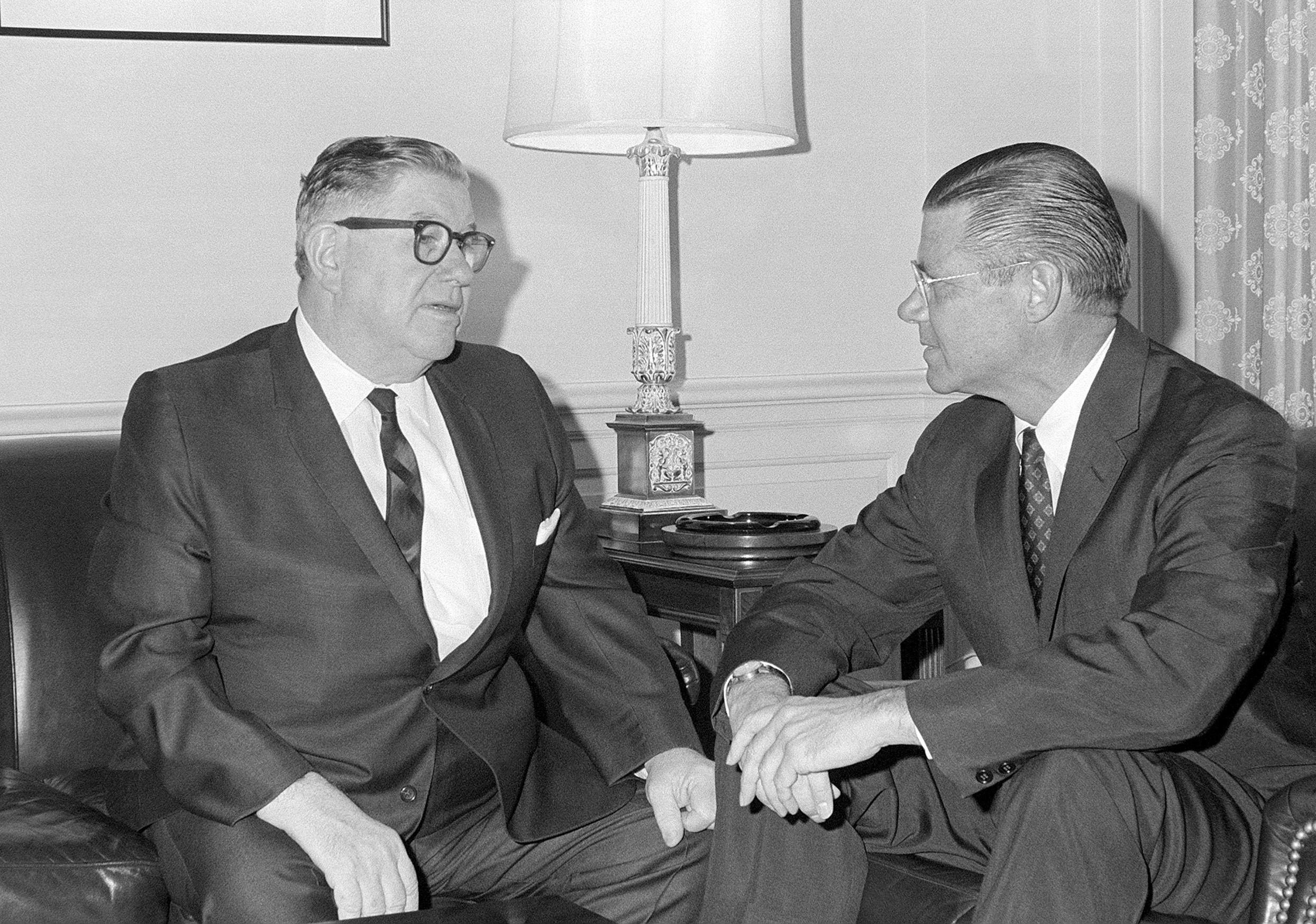 "Congressman Edward J. Patten (D-New Jersey) (left) meets with Secretary of Defense Robert S. McNamara in his Pentagon."